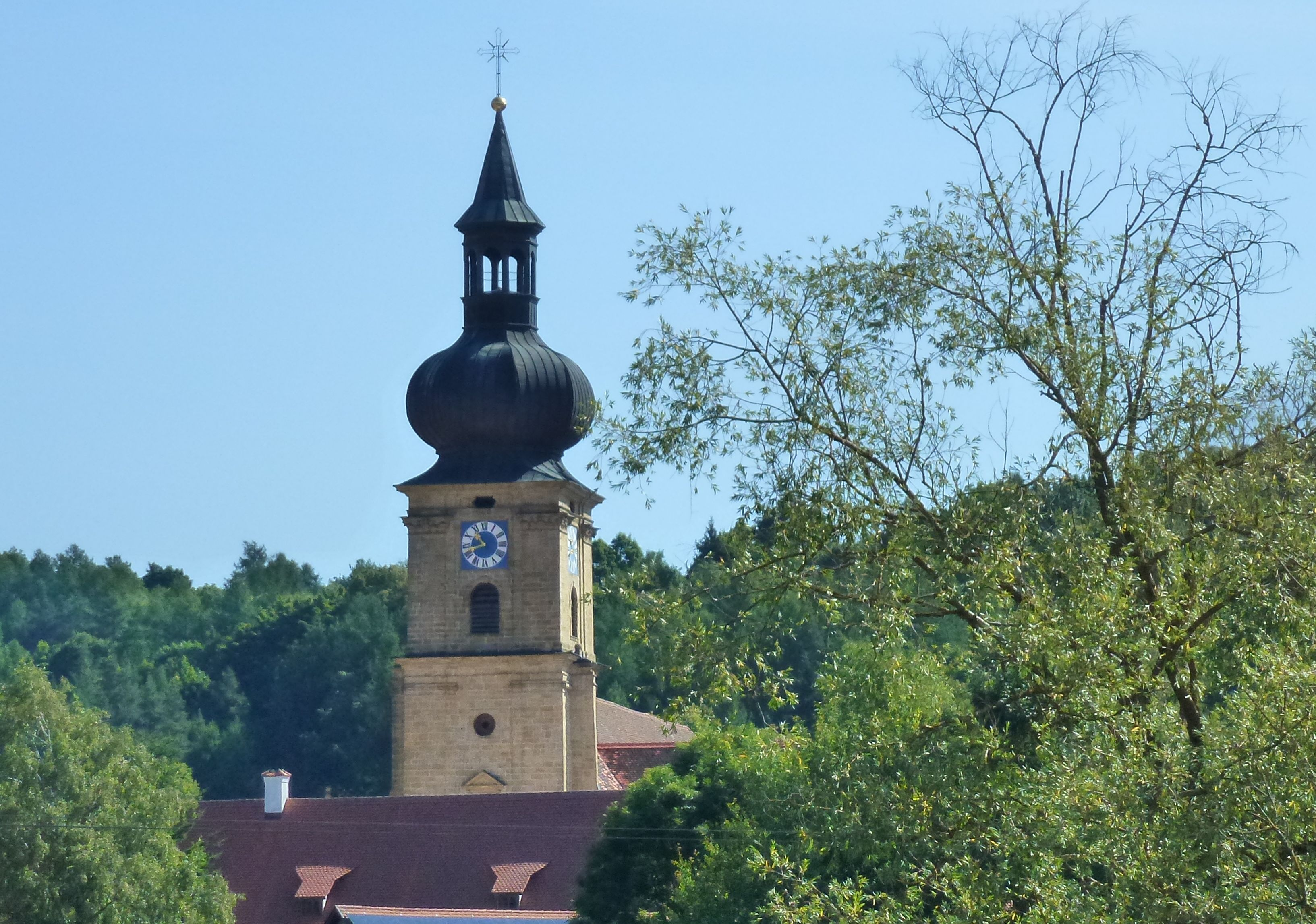 View on Ensdorf Church